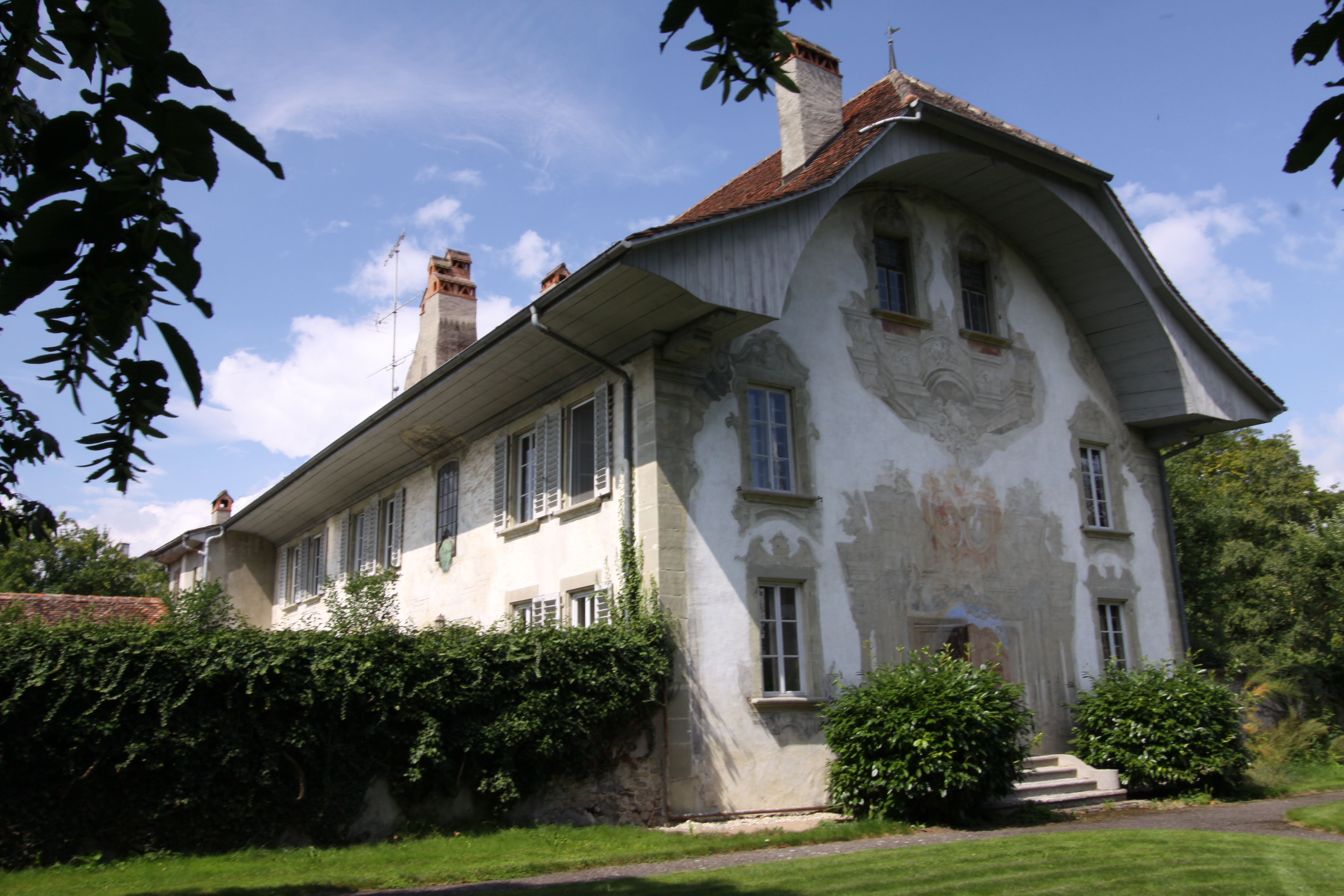 de Gottrau Manor House, Route de Payerne 5, Léchelles